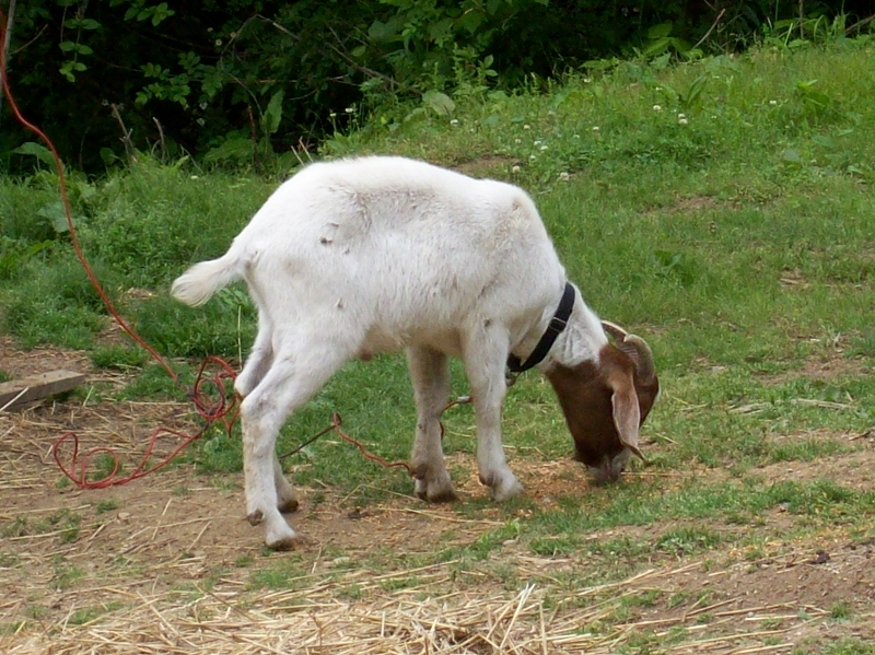 Knuckles, the petted billy goat.